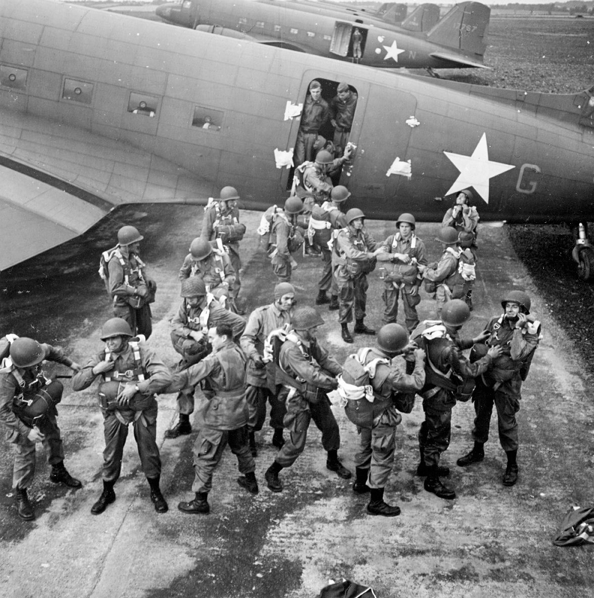 Paratroopers of the 503rd US Parachute Infantry Regiment prepare to board a C-47 Skytrain of the 60th Troop Carrier Group. Another C-47 (serial number 41-7767) is visible in the background. Passed for publication 23 Sep 1942. Handwritten caption on reverse: '23/9/42. 2nd Batt. 503 US Parachute Infantry Reg.' Printed caption removed from reverse. On reverse: Calcraft Illustrated, US Army Press Censor ETO and US Army General Section Press & Censorship Bureau [Stamps].